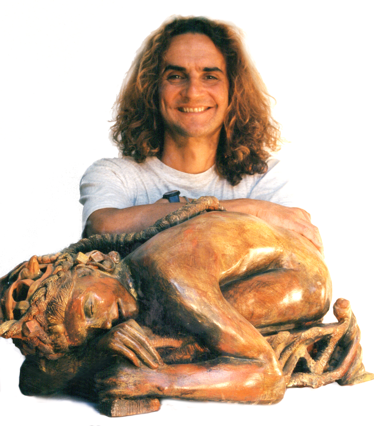 Zamor's portrait